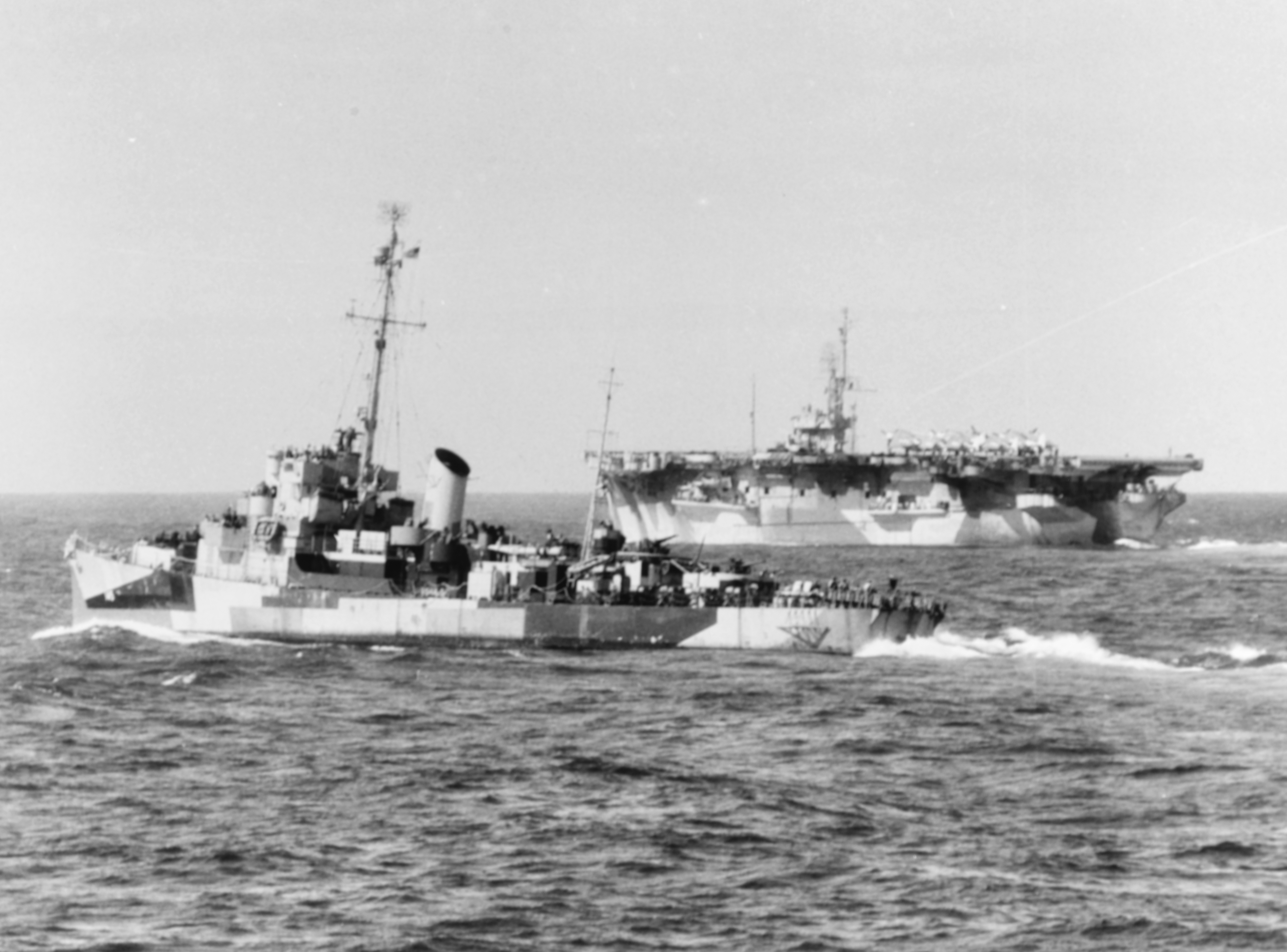 The U.S. Navy destroyer escort USS Huse (DE-145) operating with an escort carrier in the Atlantic Ocean, 12 December 1944. Huse's port side is painted in camouflage Measure 33, Design 3D(gx).